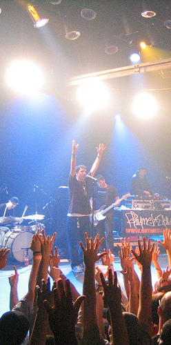 Atmosphere at the Warehouse in Houston, TX in 2006